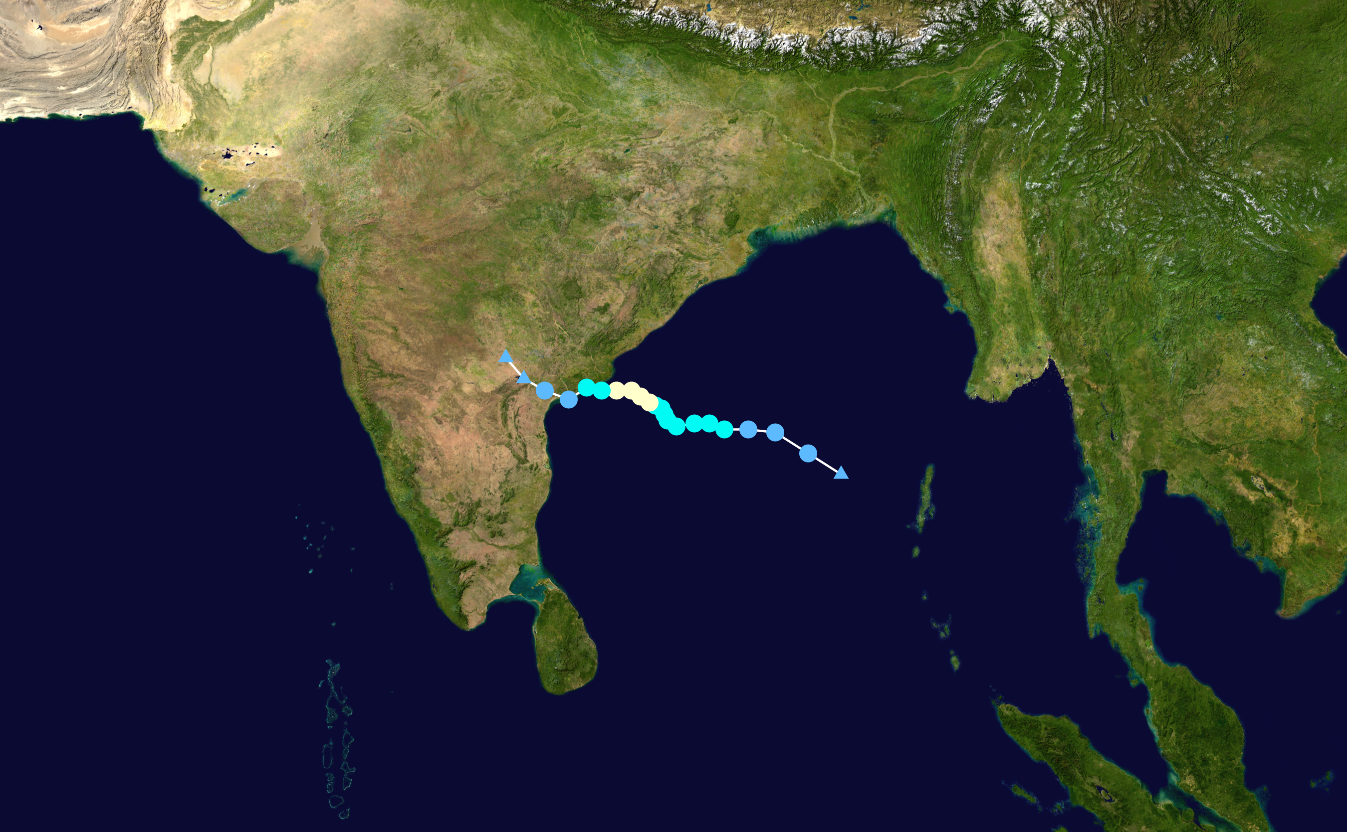 Track map of Severe Cyclonic Storm Helen of the 2013 North Indian Ocean cyclone season. The points show the location of the storm at 6-hour intervals. The colour represents the storm's maximum sustained wind speeds as classified in the Saffir–Simpson scale (see below), and the shape of the data points represent the nature of the storm, according to the legend below. Saffir–Simpson scale Tropical depression≤38 mph≤62 km/h Category 3111–129 mph178–208 km/h Tropical storm39–73 mph63–118 km/h Category 4130–156 mph209–251 km/h Category 174–95 mph119–153 km/h Category 5≥157 mph≥252 km/h Category 296–110 mph154–177 km/h Unknown Storm type Tropical cyclone Subtropical cyclone Extratropical cyclone / Remnant low / Tropical disturbance / Monsoon depression